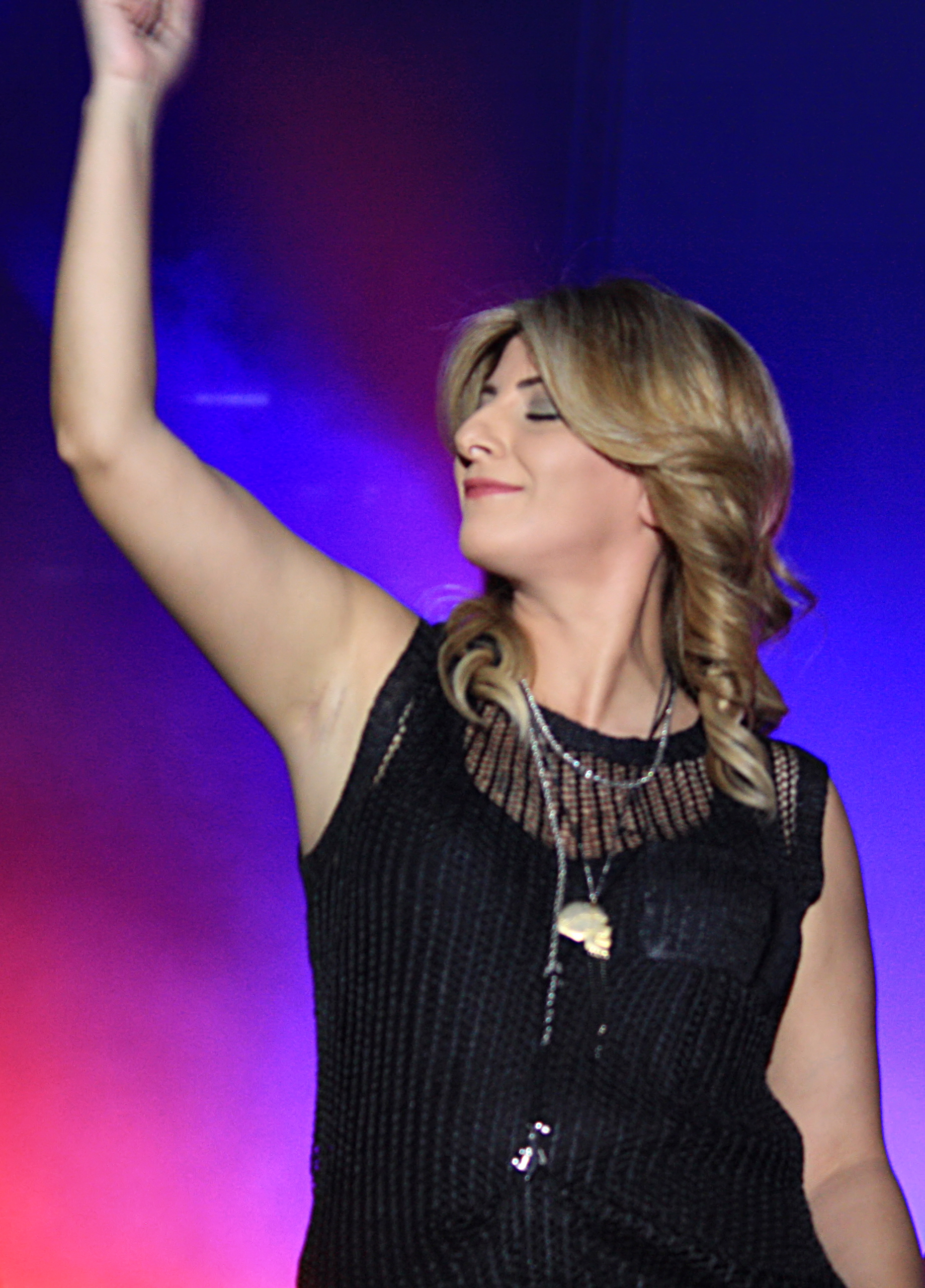 Sarit Hadad.